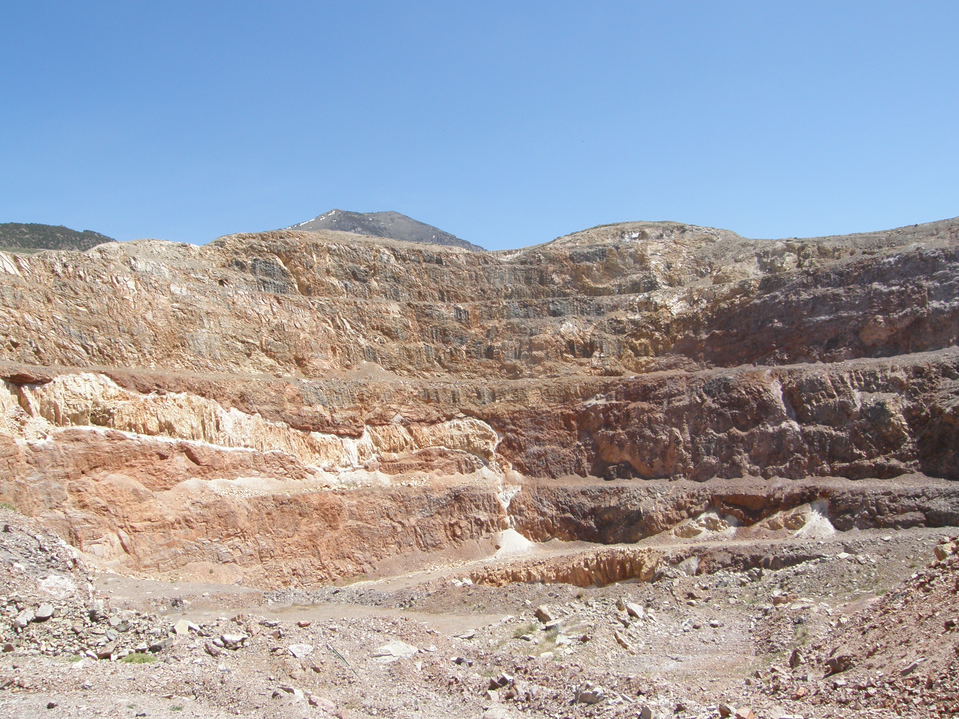 A sill exposed in a former gold open pit mine, Northern Nevada, USA